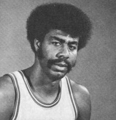 Basketball players Gene Moore